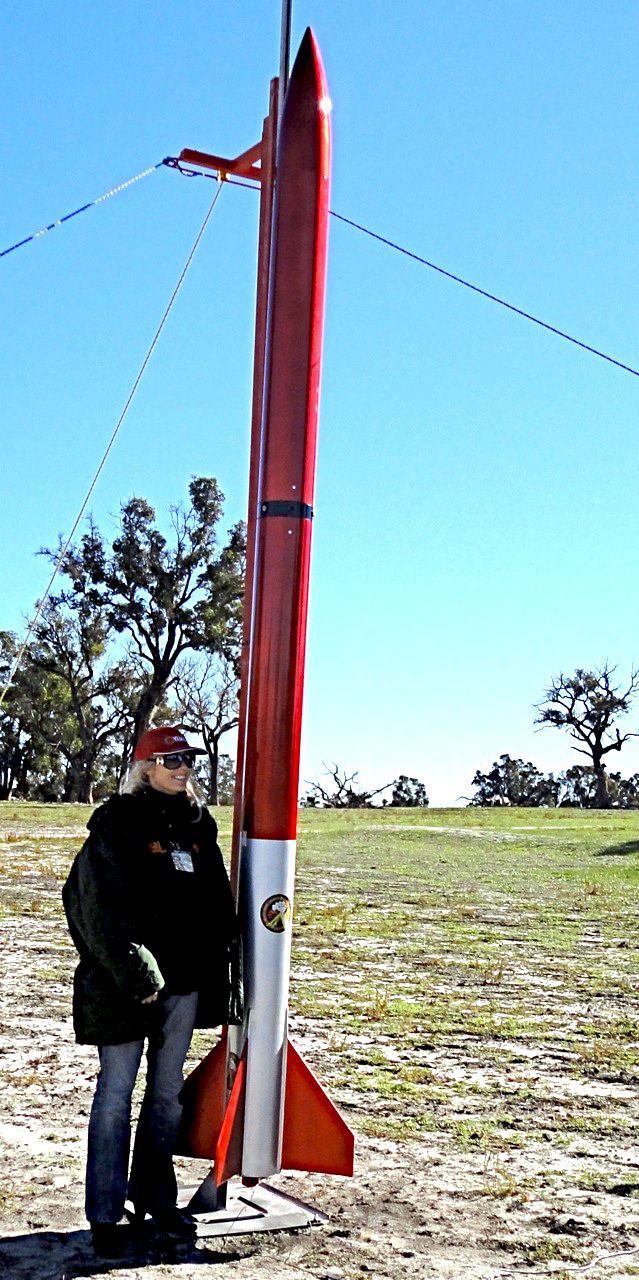 Samantha Ridgway was the first woman TRA Cert III Rocketeer in Australia. She flew the rocket she designed and built, named Lucky 7 on an M1500 Rocket Motor.